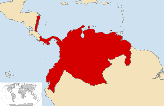 Map and Location of the Viceroyalty of New Granada, Consisting of the present day nations of Colombia, Venezuela, Ecuador, Panama, and parts of the present day nations of Nicaragua, Costa Rica, Peru, Brasil, Guyana, and Trinidad and Tobago.